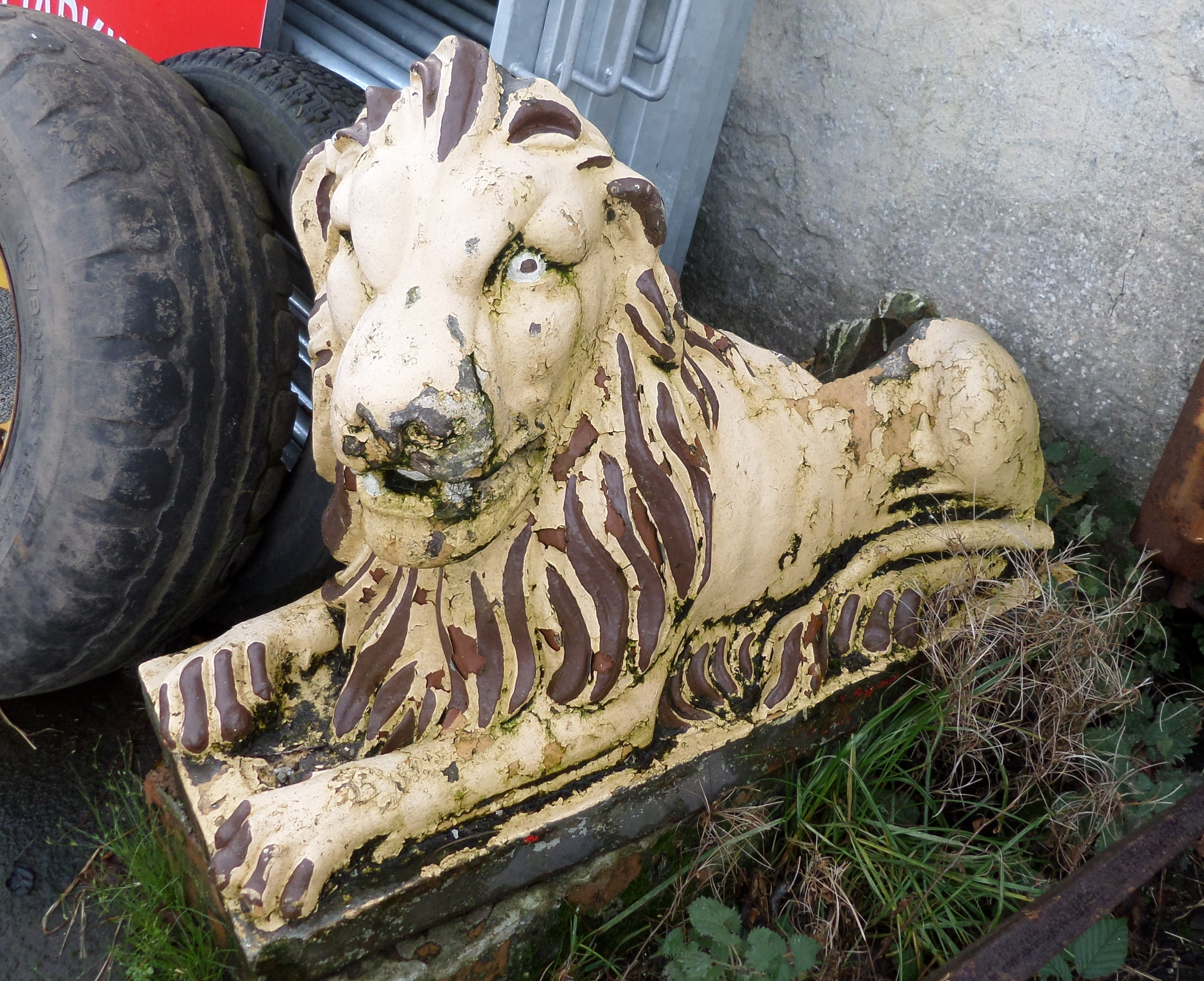 Haining Mains Farm, one of two terracotta lions from the old entrance arch at Haining Place, East Ayrshire, Scotland..